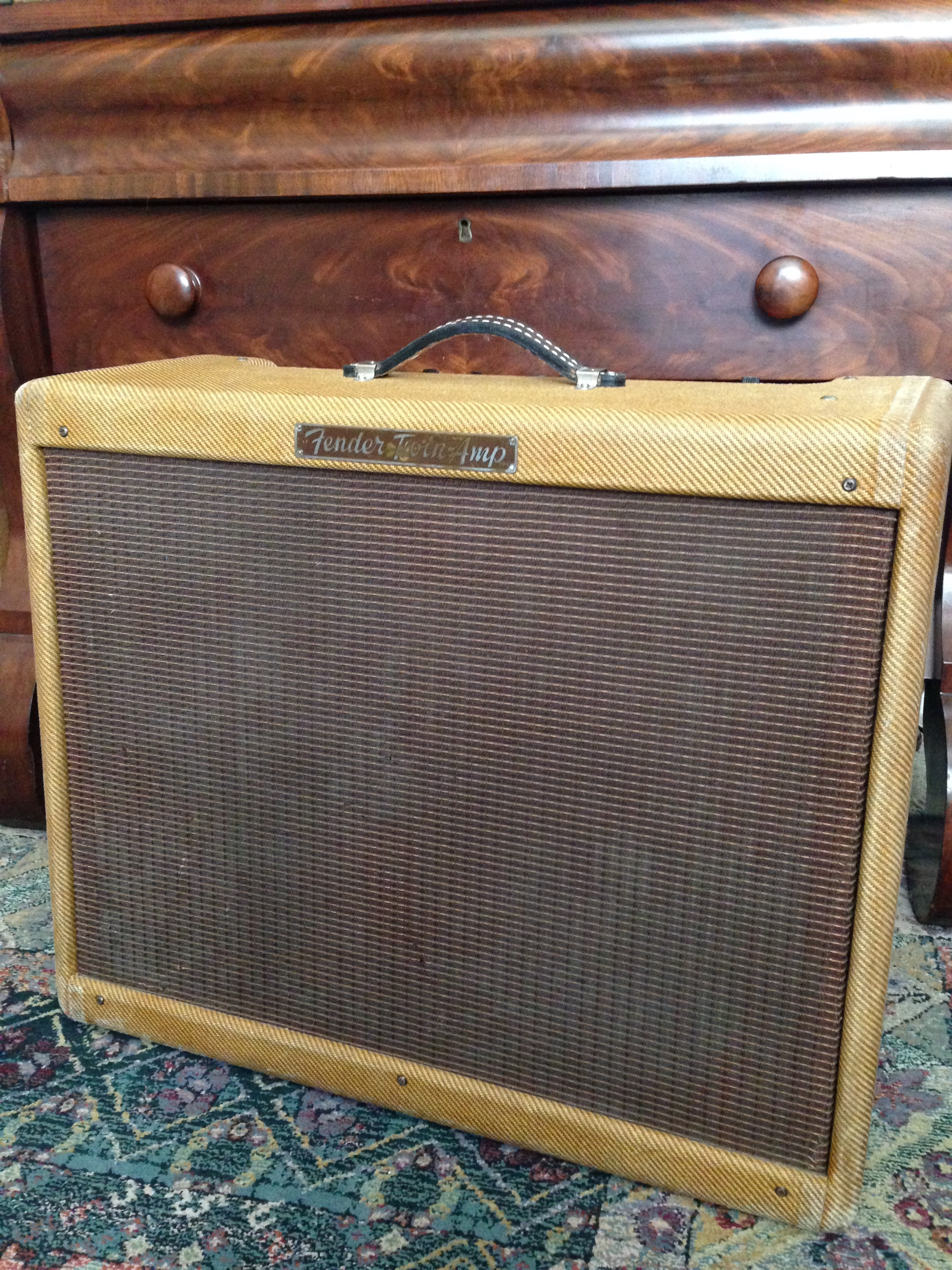 1955 Twin-Amp, model 5E5. First narrow panel design, 2-12 Jensen alnico speakers diagonally mounted. Two rectifiers and two 6L6 power tubes.